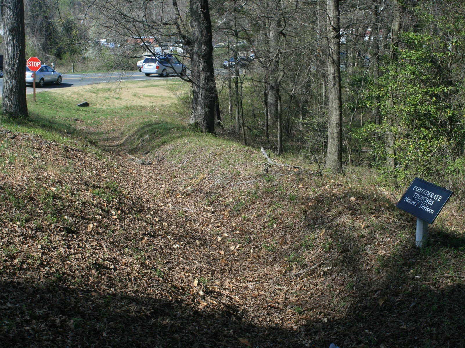 Confederate trenches (McLaws' division) near Fredericksburg